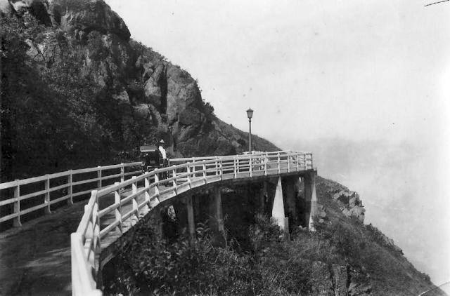 Photo of Lugard Road taken in the 1930s. The road was originally built in 1913 to 1914 to provide connection for the residents within the Peak in Hong Kong Island. A rickshaw can be seen on the road in this photo.